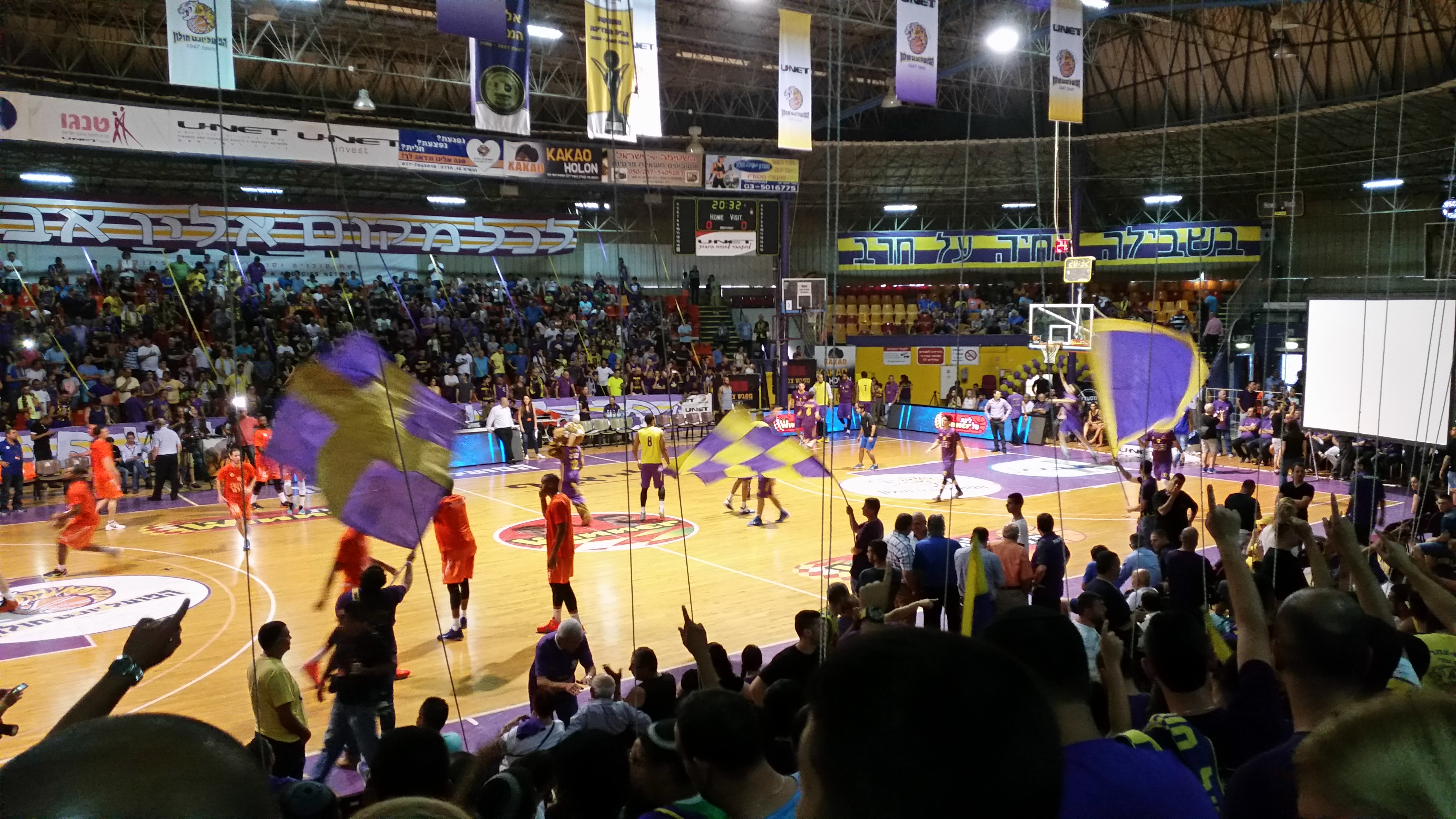 The last official game of Hapoel Holon BC that was hosted in its old home Arena "Hapachim", against Maccabi Rishon LeZion, 2014-15 season playoff, "Winner" league (Israeli primary basketball league).